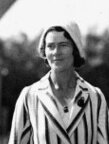 Ester James, 1932